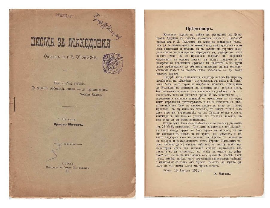 Pisma Za Makedonia